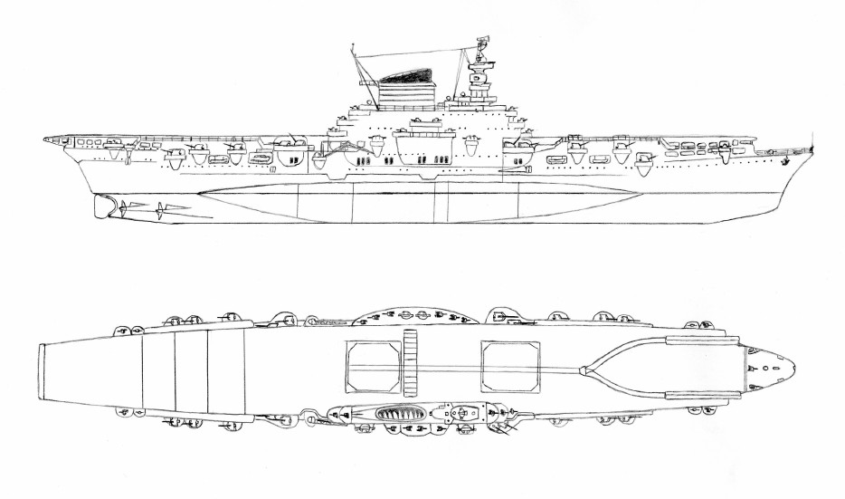 Italian aircraft carrier Aquila